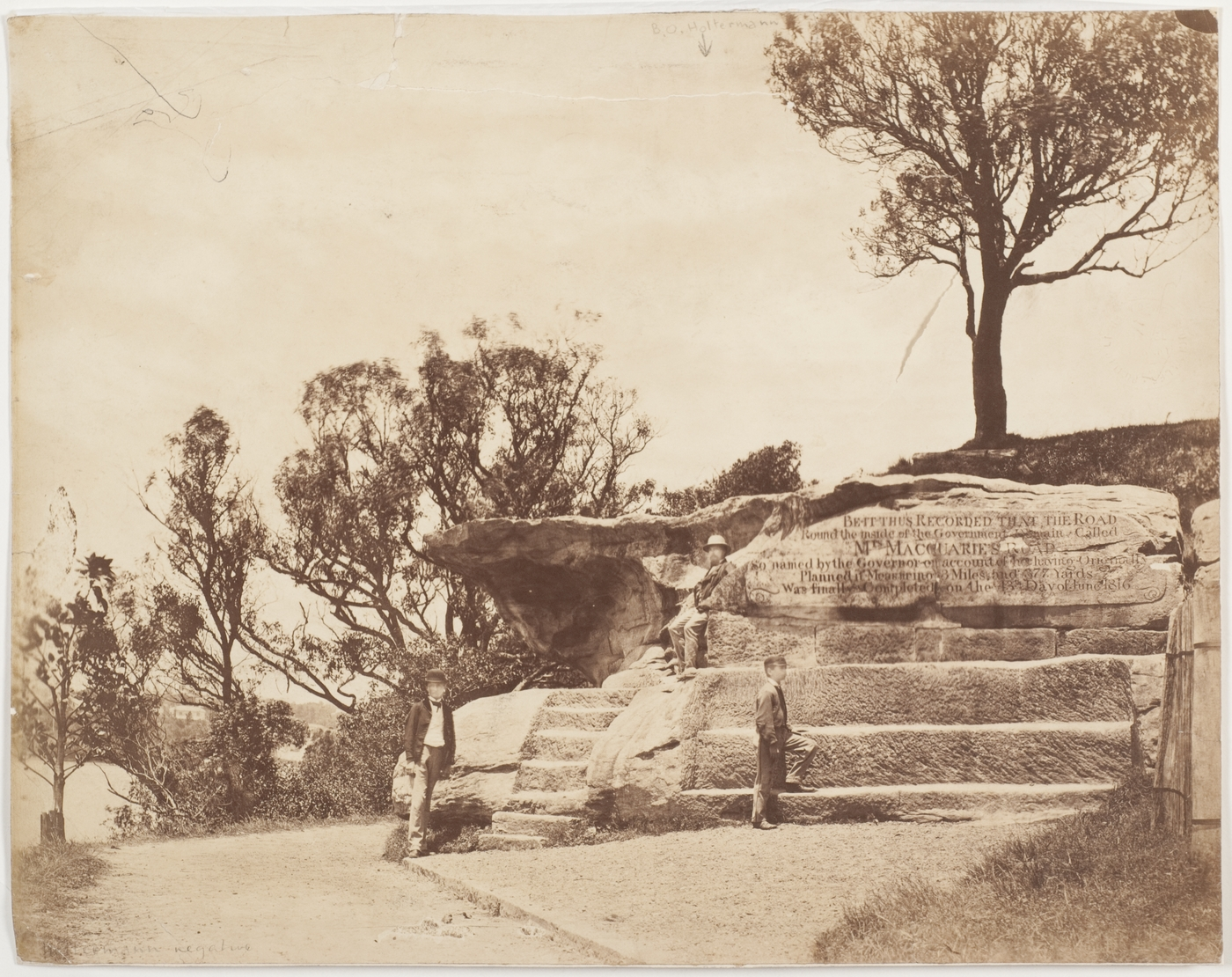 "The messenger lad, or 'page-boy', worked on the staff of the American & Australasian Photographic Company ..." -- information taken from Holtermann copy in the Keast Burke collection. Format: Photograph Find more detailed information about this photograph: .au/item/itemDetailPaged.aspx?itemID=888380 Search for more great images in the State Library's collections: .au/search/SimpleSearch.aspx From the collection of the State Library of New South Wales